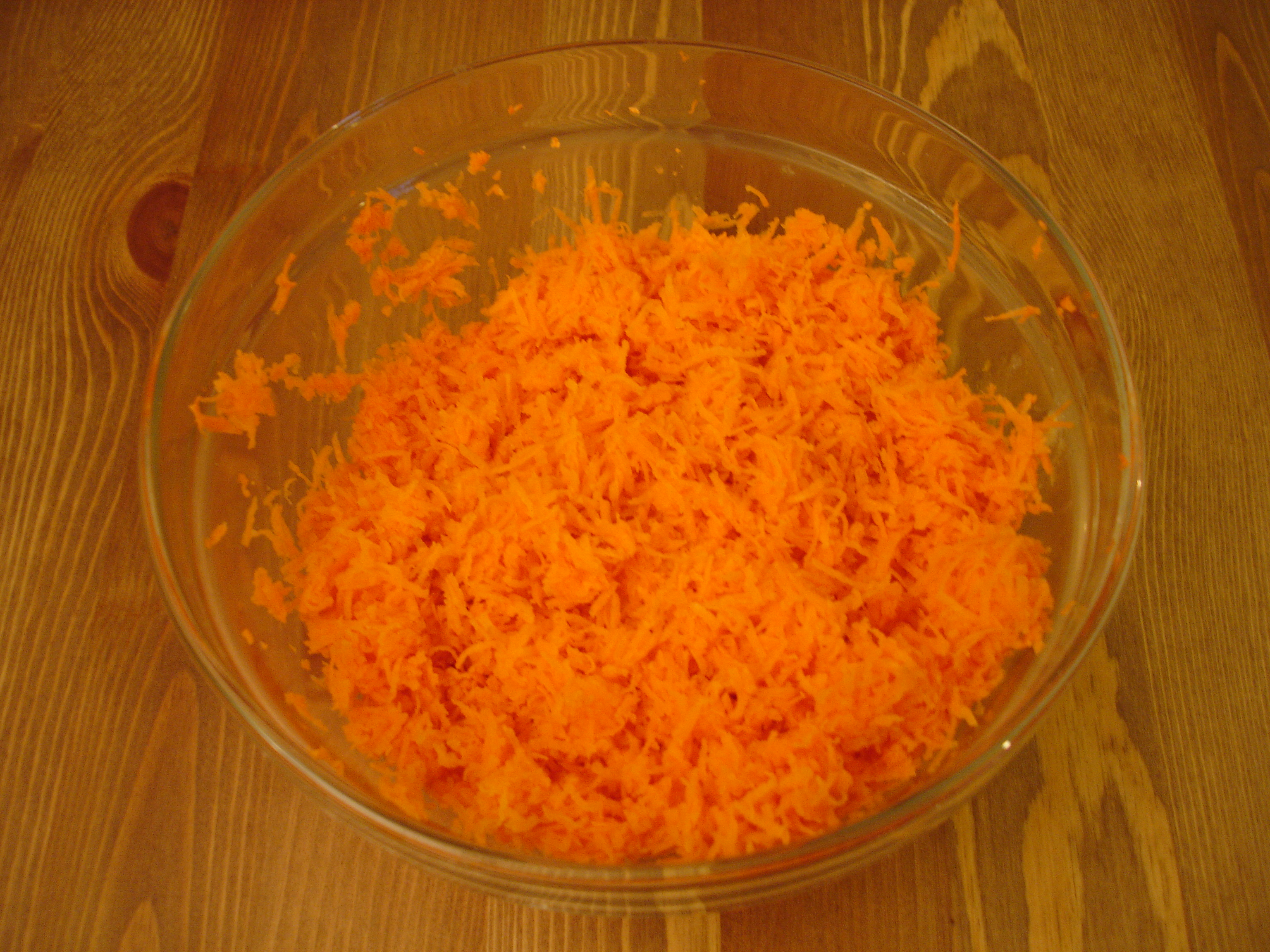 Grated carotts